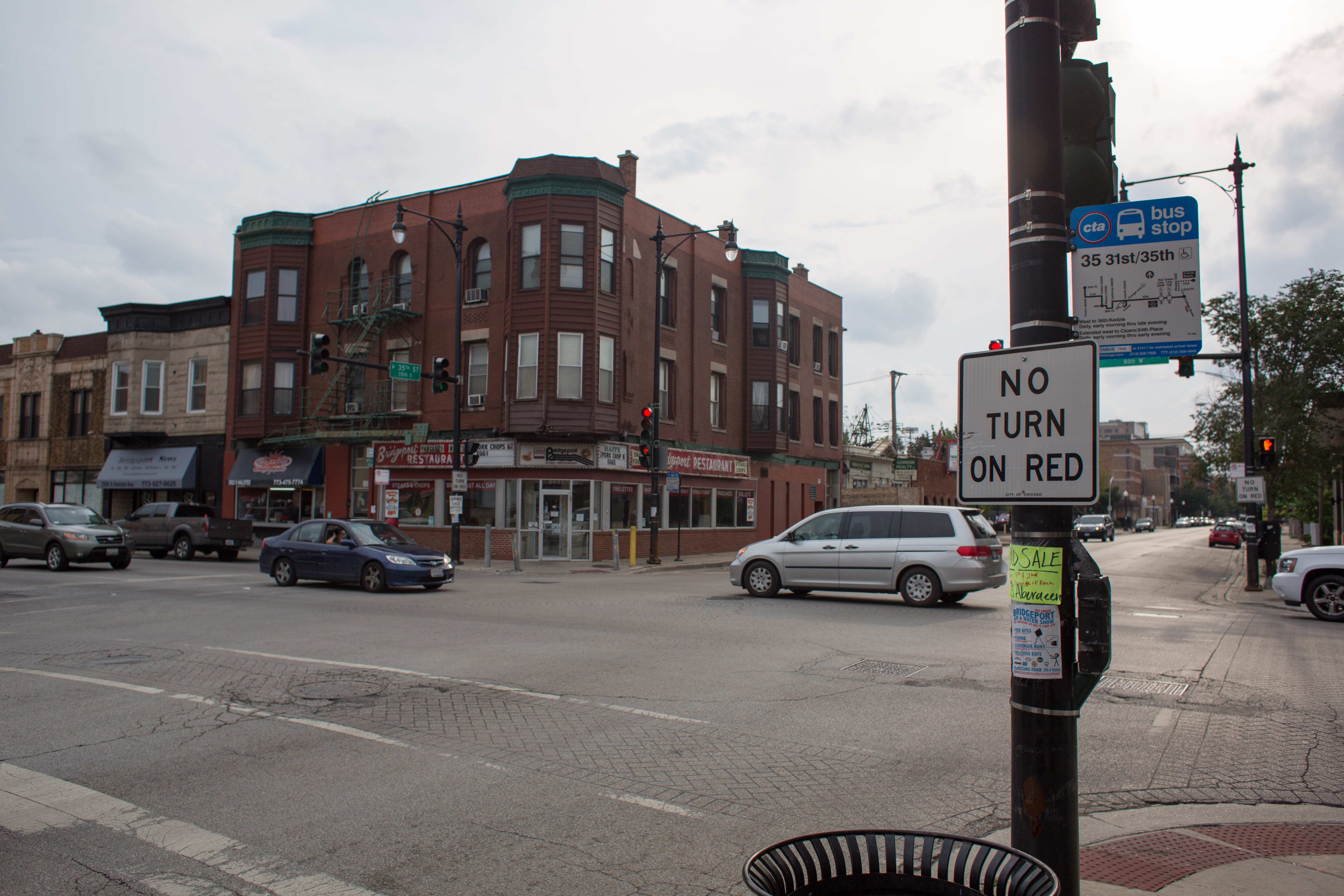 35th and Halsted, Bridgeport, Chicago 2015